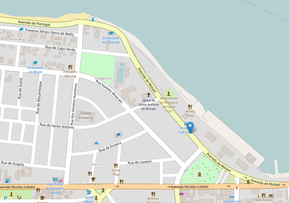 Template:DeS This map may be incomplete, and may contain errors. Don't rely solely on it for navigation.